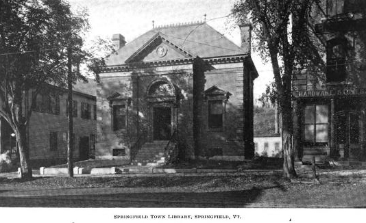 Library in Vermont